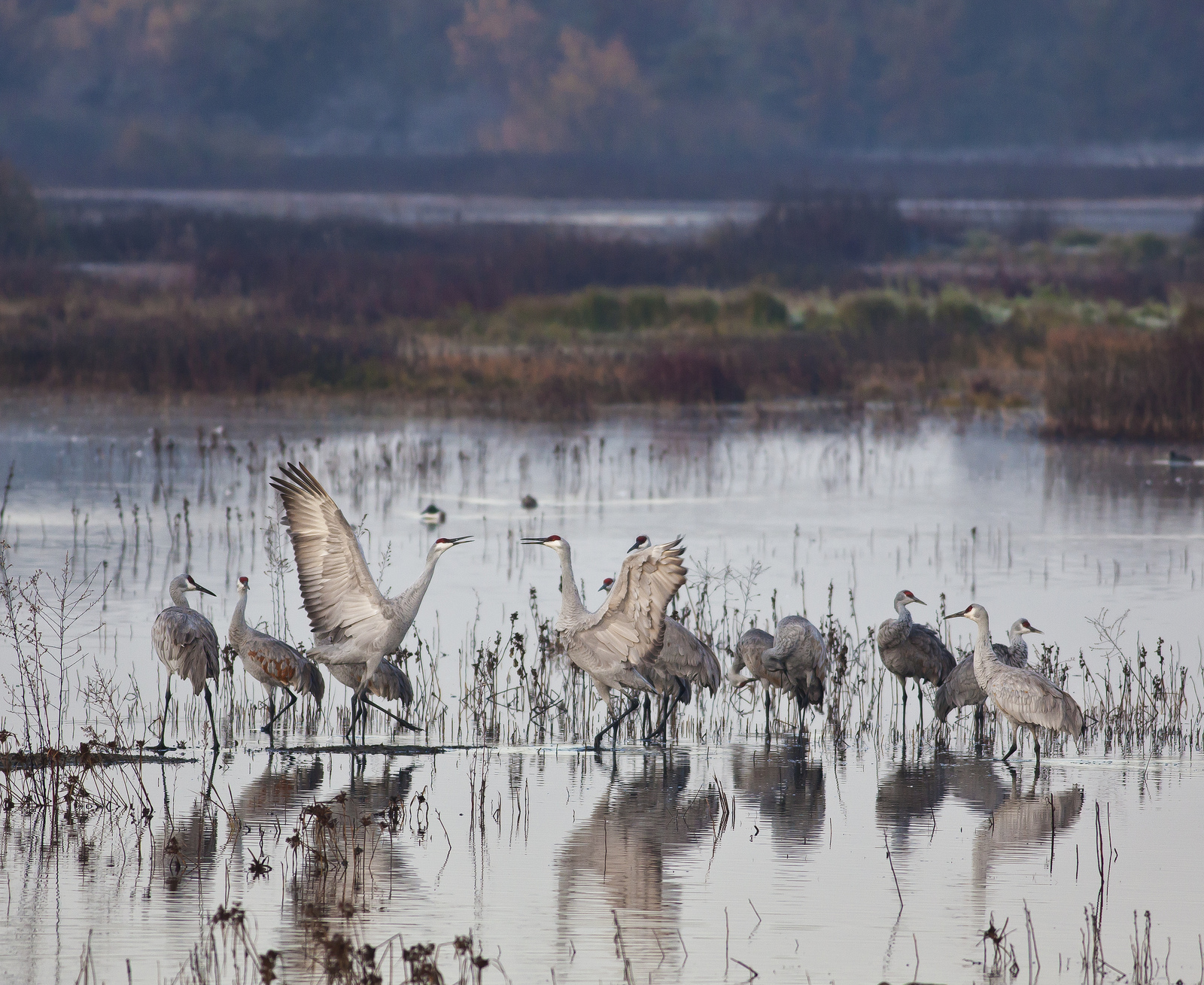 BLM Winter Bucket List #9: Cosumnes River Preserve, California, for the Trumpet and Dance of the Sandhill Crane The Cosumnes River Preserve is home to California’s largest remaining valley oak riparian forest, and is one of the few protected wetland habitat areas in the state. Nestled in the heart of California’s Central Valley, the Preserve is a critical stop on the Pacific Flyway for migrating and wintering waterfowl. Over 250 species of birds have been sighted on or near the Preserve, including the Swainson hawk, Canada geese, numerous ducks, and Sandhill cranes. Sandhill cranes - gray-colored birds with red caps - stand up to 5 feet tall and have a wing span of 6 to 7 feet. They fly in for winter to fatten up, and perform acrobatic mating dances. A must for the bucket list of any bird watcher. Learn more: Photos by Bob Wick, BLM